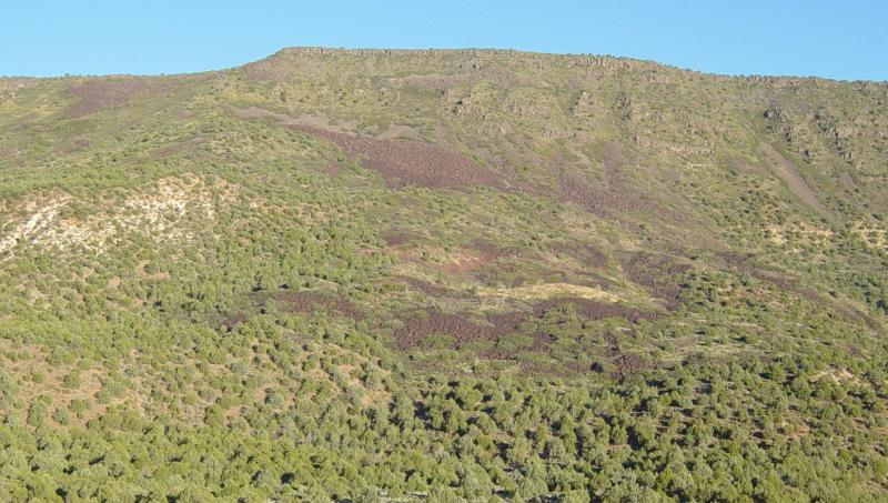 Basalt flows on Hurricane Cliffs, Zion national park, Photo taken by Daniel Mayer in August 2004.